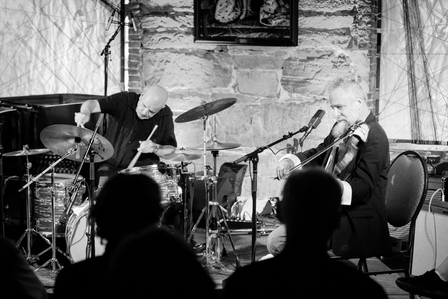 Randy Peterson and Mat Maneri at Særingfest in Smeltehytta. The concert was part of Kongsberg Jazzfestival and took place on 06. July 2018 in Kongsberg. Lineup:Mat Maneri (viola)Randy Peterson (drums)